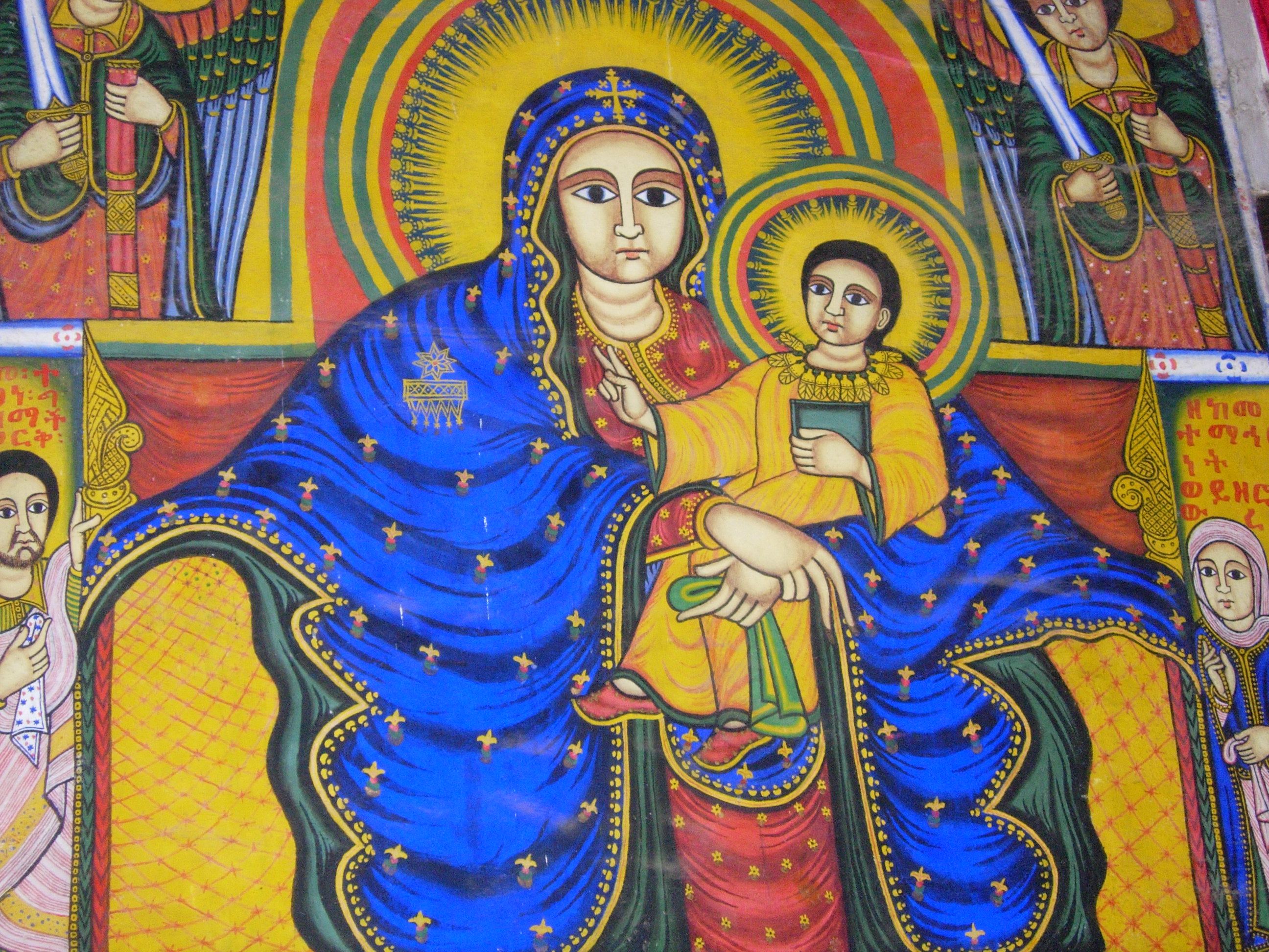 A fresco of a white Madonna and Jesus in Axum Cathedral, Ethiopia